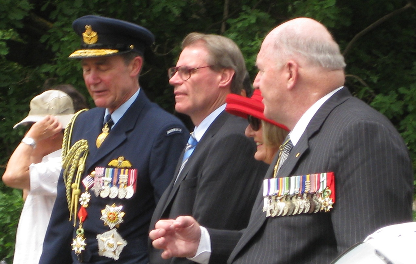 From left to right, Air Chief Marshal Angus Houston, Defence Minister John Faulkner and former Chief of the Defence Force Peter Cosgrove at the Operation Catalyst Welcome Home Parade